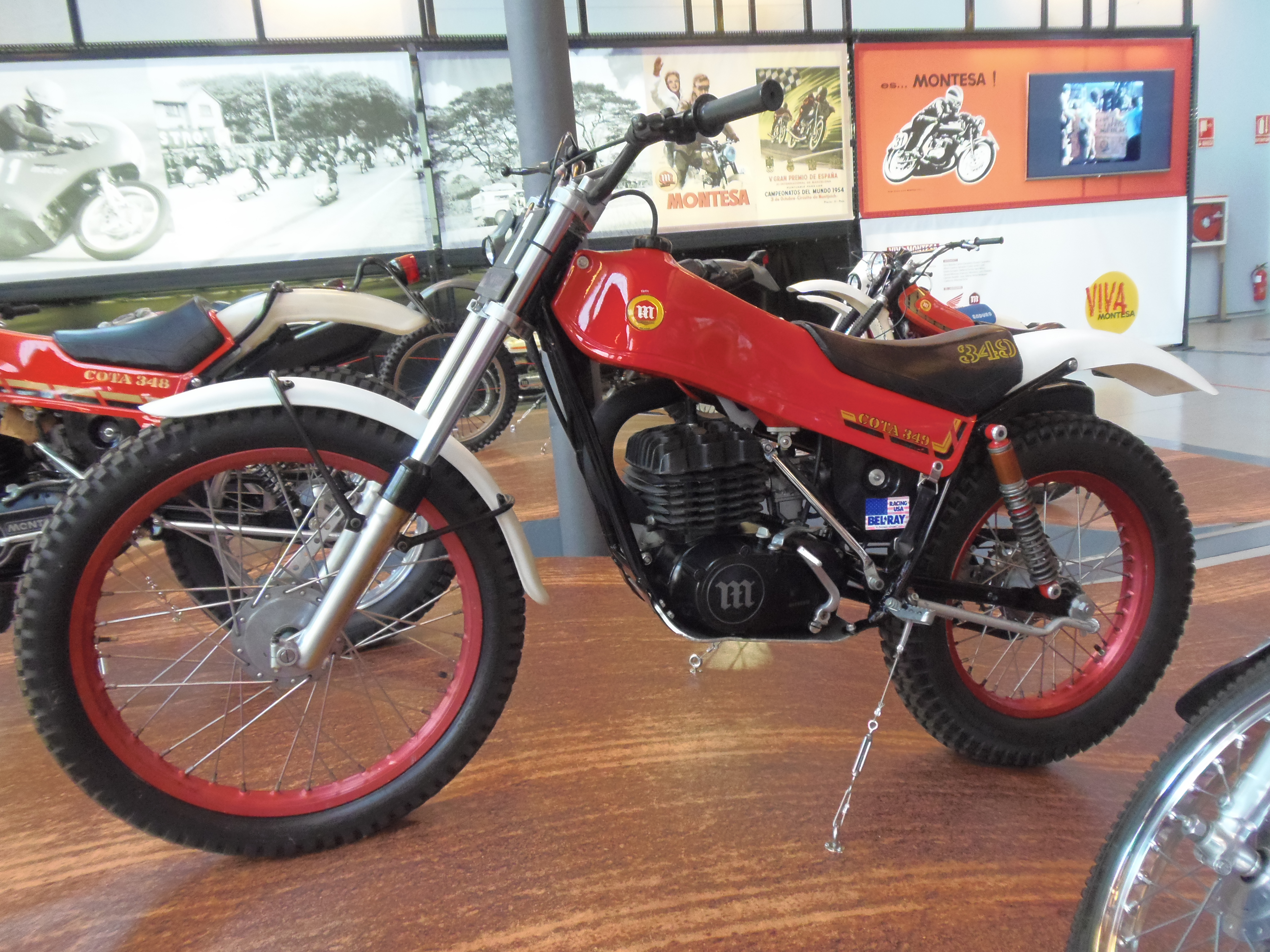 Marland Whaley's 1980 Montesa Cota 349 (the filename is wrong). Whaley won the 1980 USA Championship on this bike